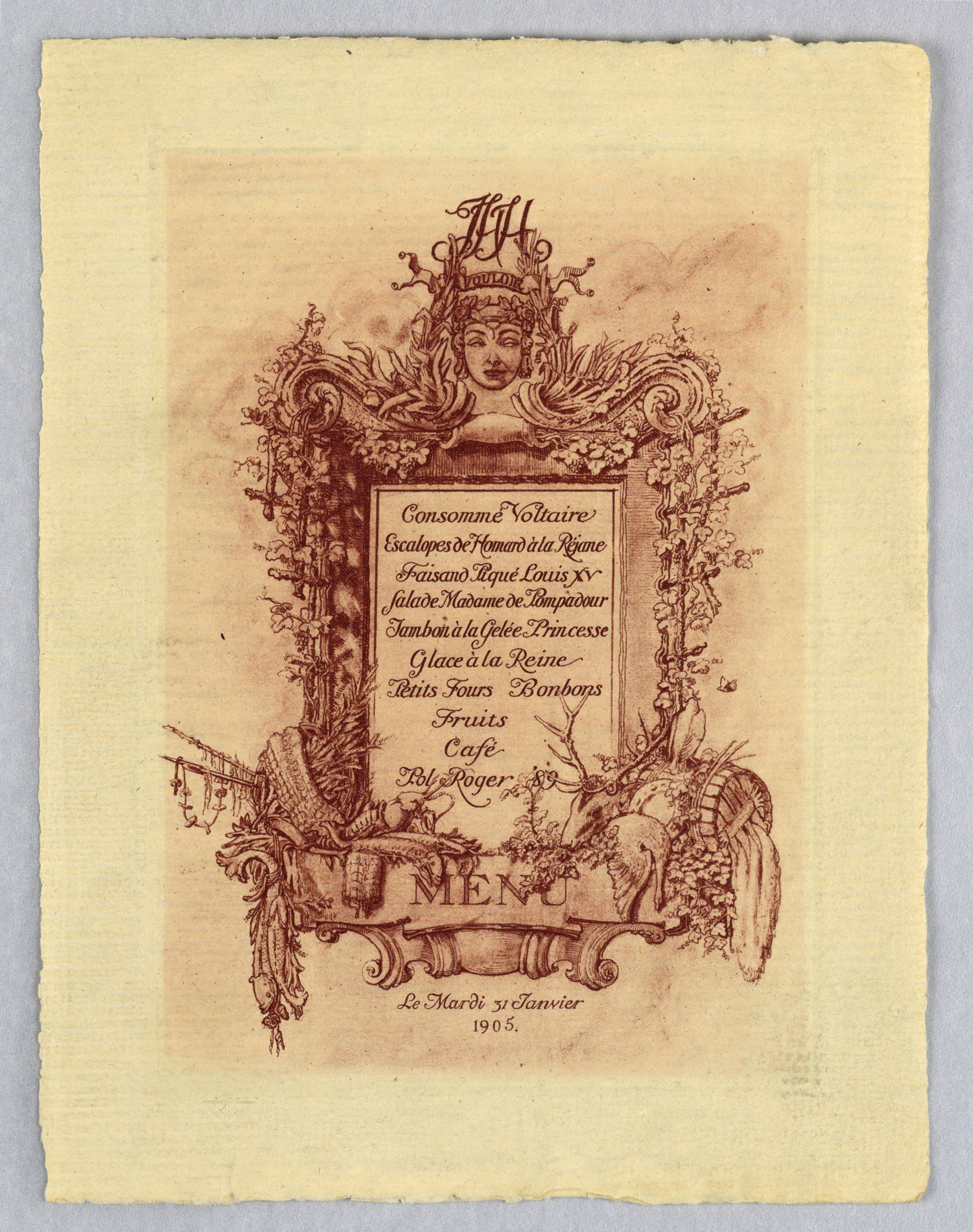 An elaborate menu for a banquet listing the dishes to be served inside an escutcheon bordered by a masked deity of plenty above, fruits of the hunt and of the harvest below, and snaking grapevine on the trellises at either side.